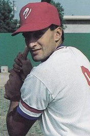 Professional baseball player Scott Leius